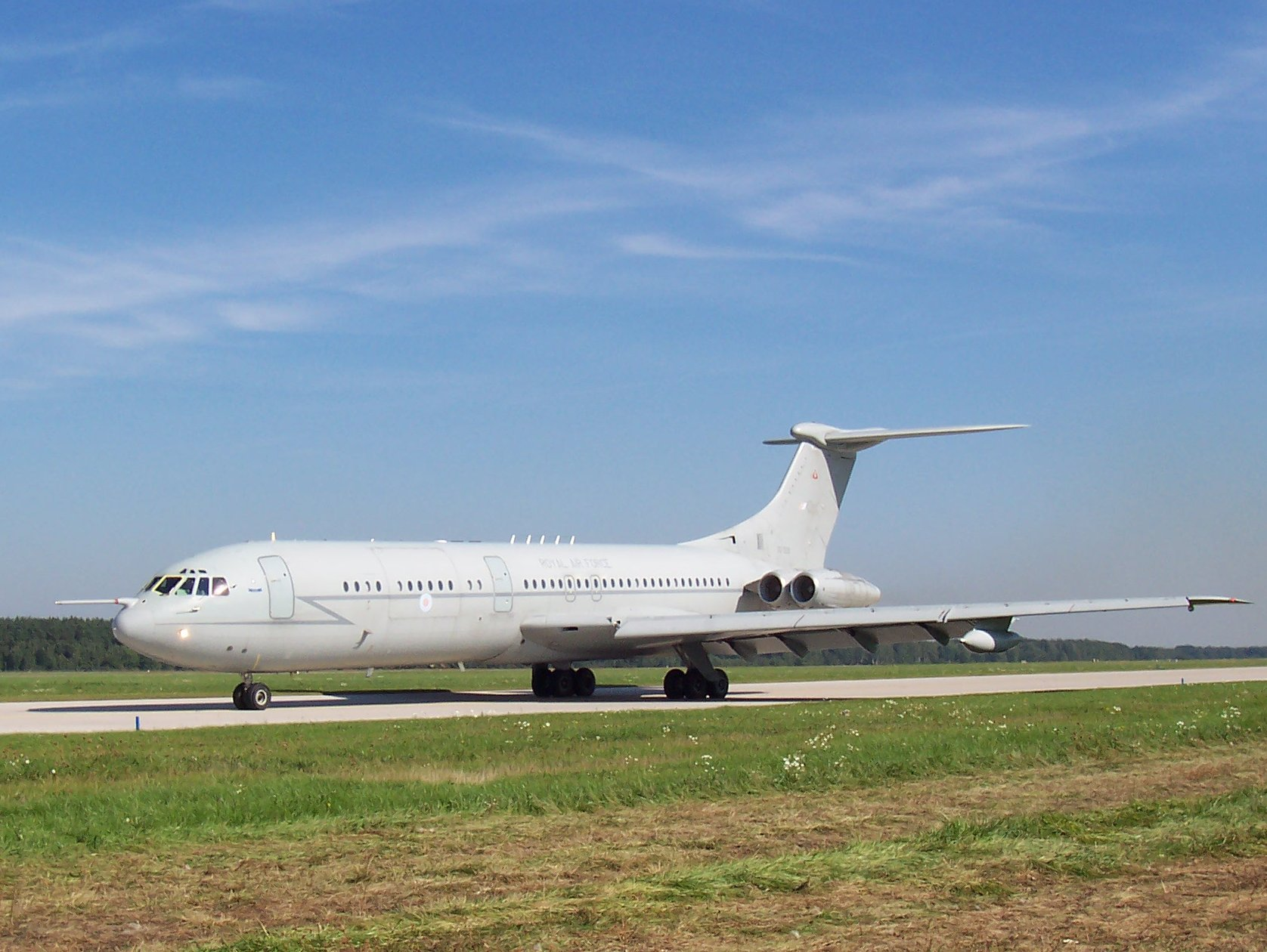 Royal Air Force Vickers VC10 (registration XV108) tanker and transport aircraft at Hannover Airport